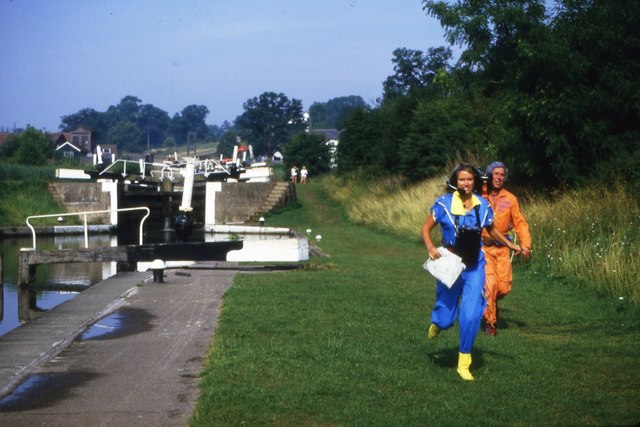 Anneka Rice at Hatton Locks, 1984. Described on geograph as 'The helicopter has landed near the top lock, and here Anneka Rice, followed by the cameraman, can be seen running down the towpath. She asked us "is there a boat called Gordon ?" The filming of 'Treasure Hunt', 1984 These photos show part of the filming of an episode of the TV programme 'Treasure Hunt' at Hatton Locks on 23rd August 1984. The narrowboat featured was the 'General Gordon', built by Brummagem Boats and owned by Malcolm Betts who can be seen standing on the left in photos 2 and 3. The episode also included other locations in Warwickshire including Warwick Castle, Charlecote Park, the Royal Shakespeare Theatre and Mary Arden's House. The programme can be viewed on YouTube.'